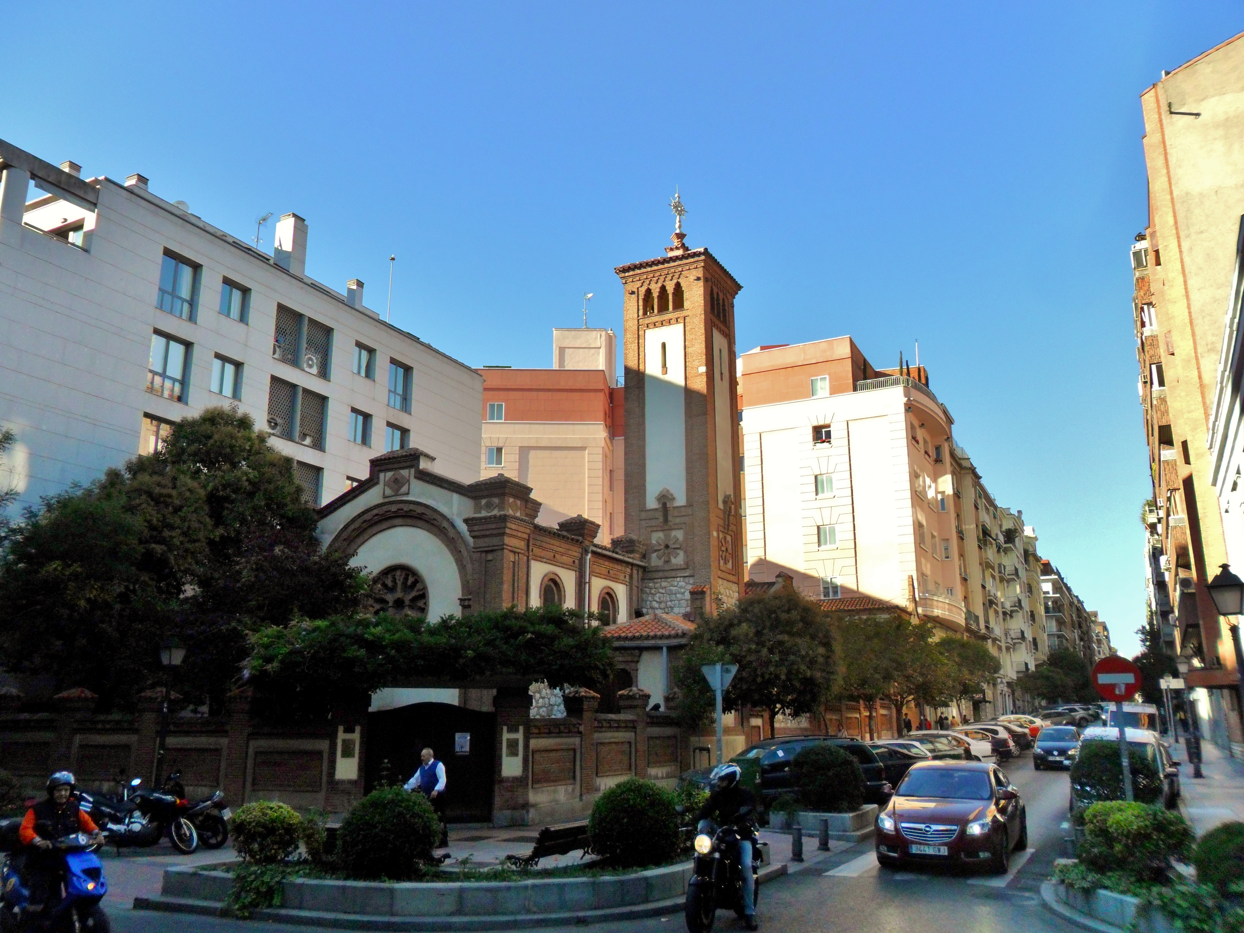 Saint George's Anglican Church, Madrid